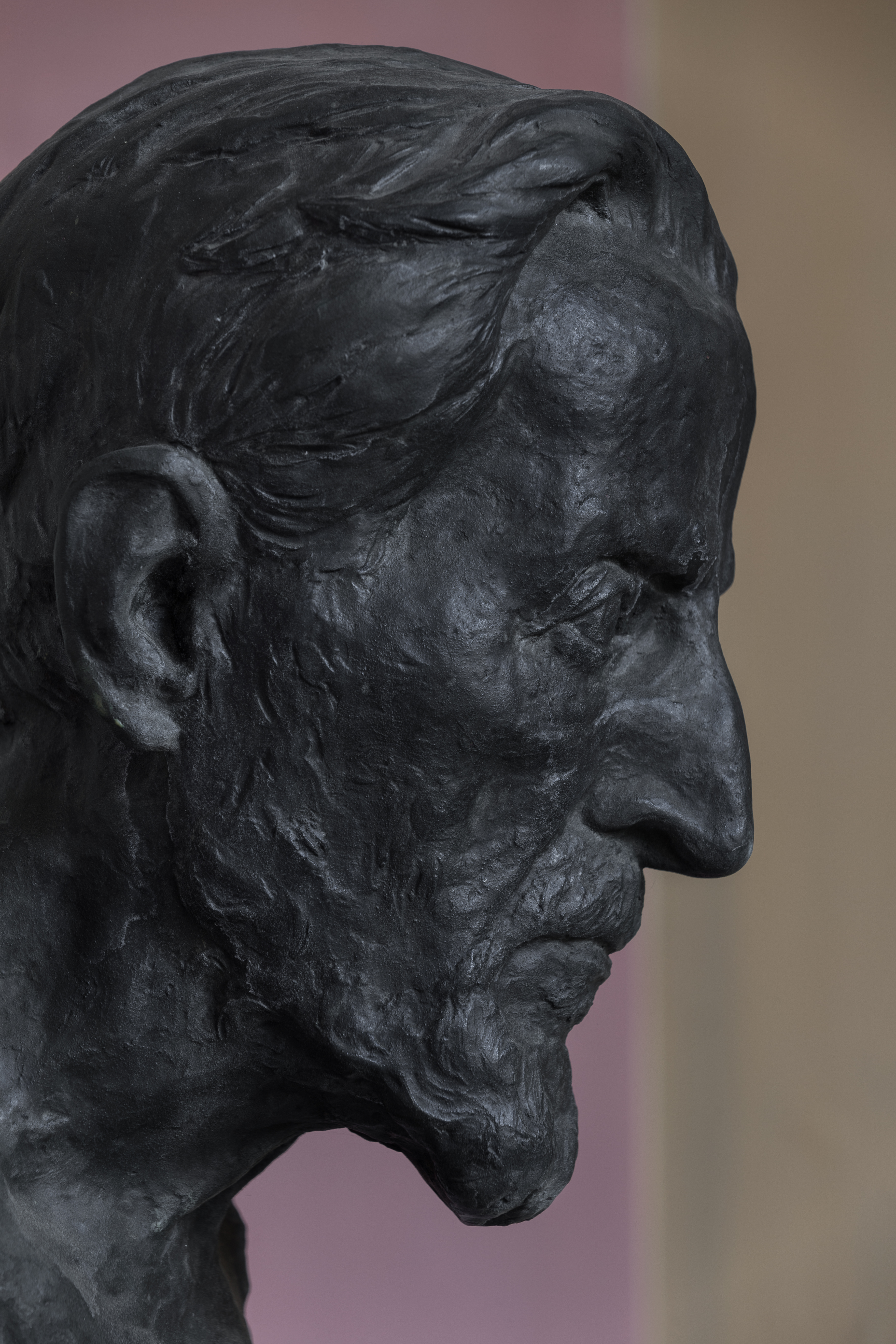 Hans Horst Meyer (1853-1939), bust (dark bronze) in the Arkadenhof of the University of Vienna, (Maisel# 78). Artist: Grete Hartmann, unveiled 1953